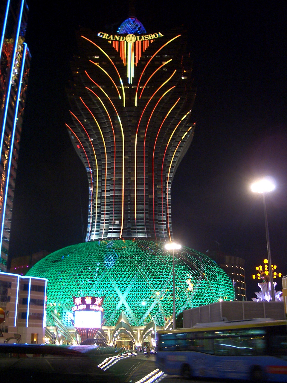 Casino "Grand Lisboa" and surrounding buildings at night.